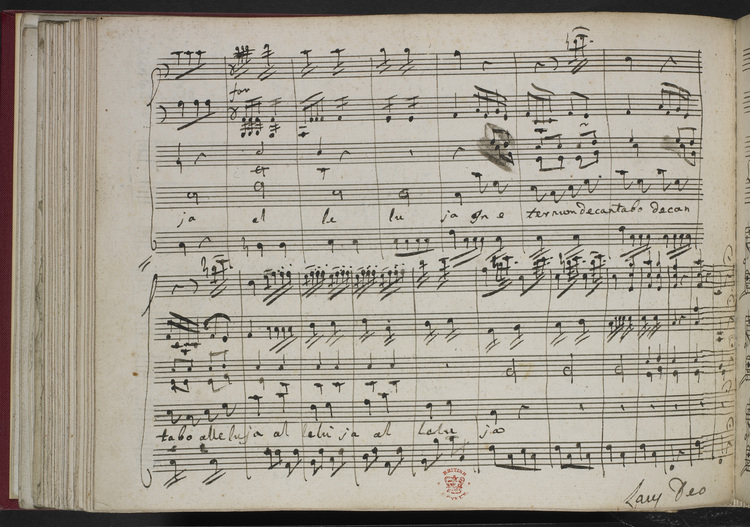 A handwritten page from the manuscript score of Placidi venti ameni, possibly written in the author's own hand. Held and digitised by the British Library.